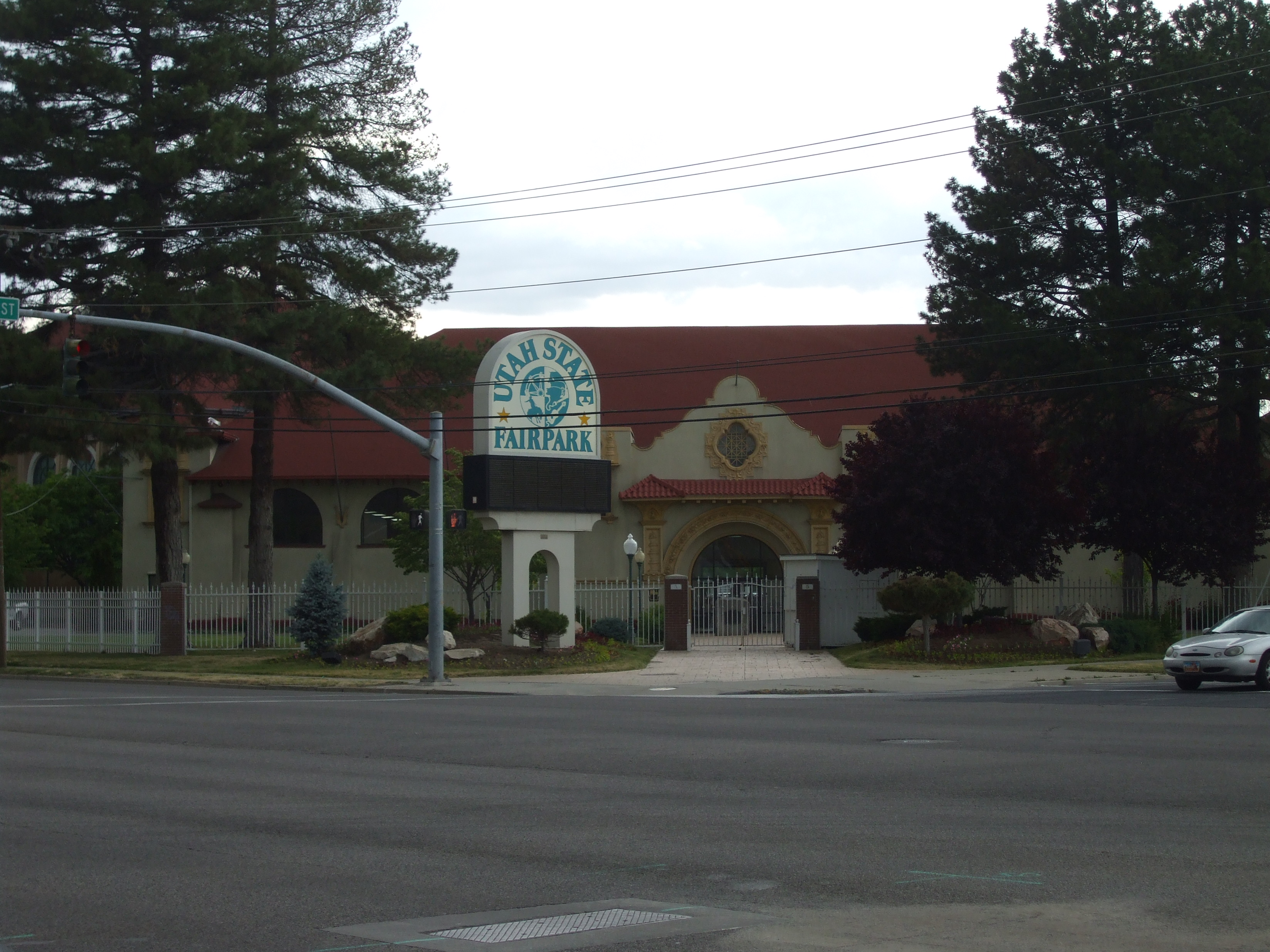 Main entrance to the Utah State Fairgrounds, a historic site in northwestern Salt Lake City, Utah, United States that is listed on the National Register of Historic Places.